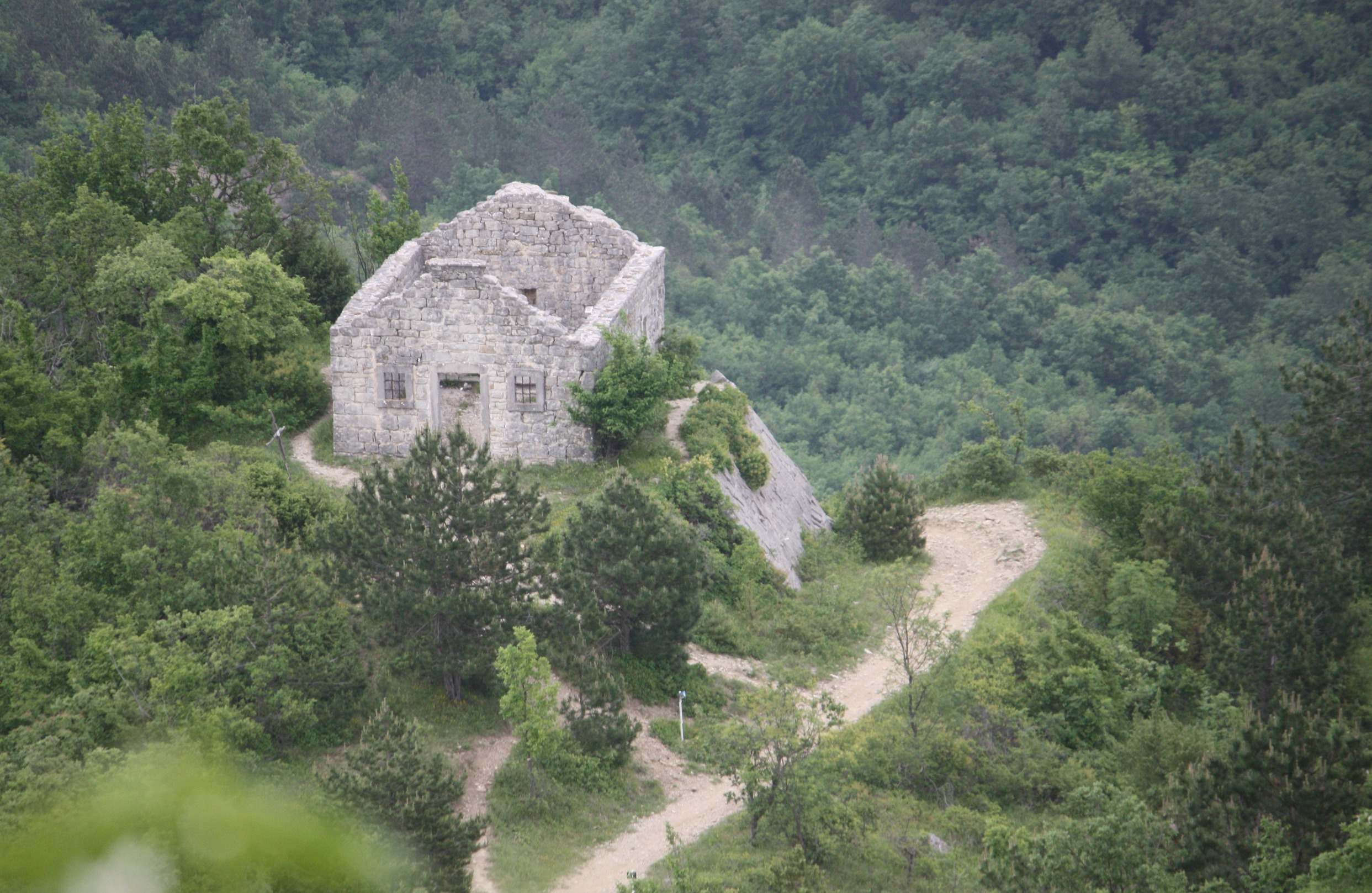 Gračišće, ruined house